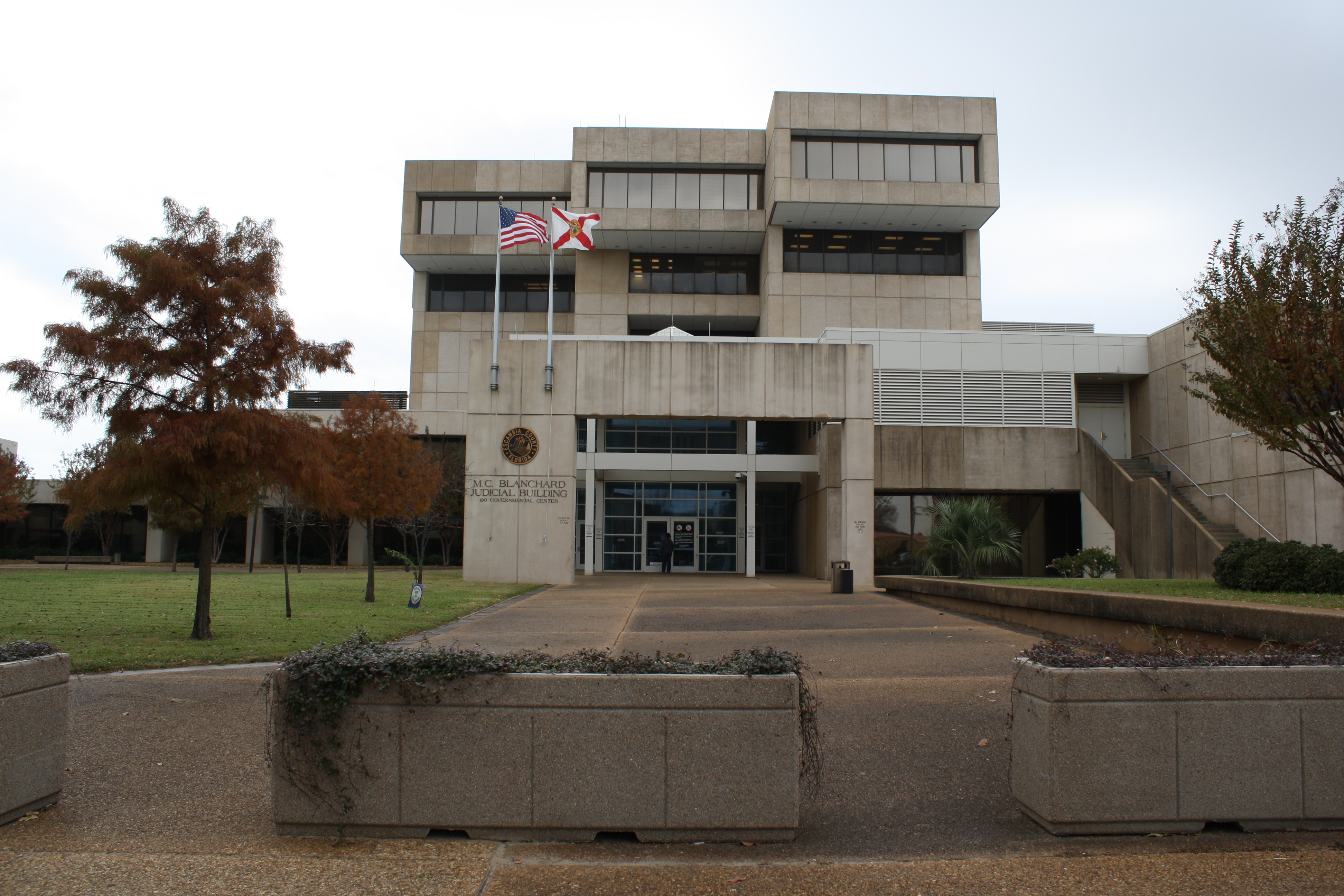 Courthouse, Escambia County, Pensacola, FL The first courthouse